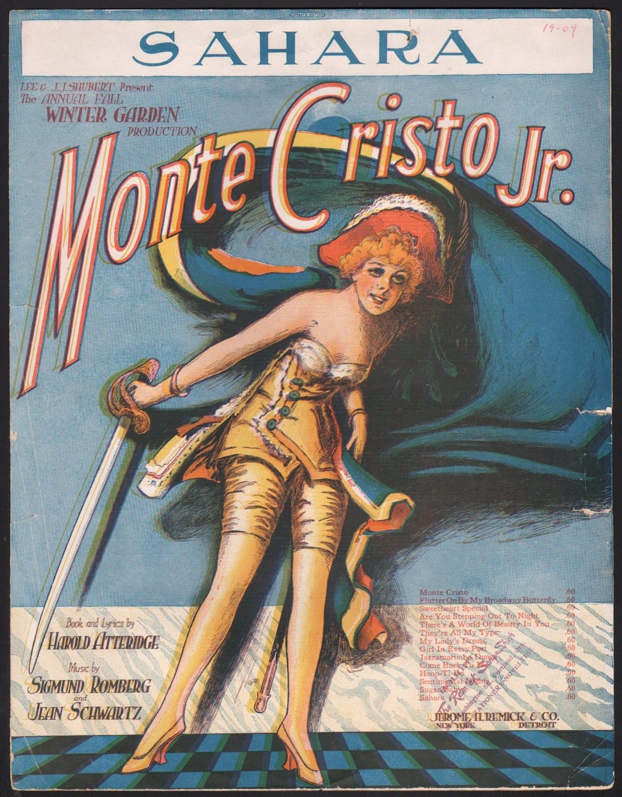 Sheet music cover for "Sahara" from Monte Cristo Jr.